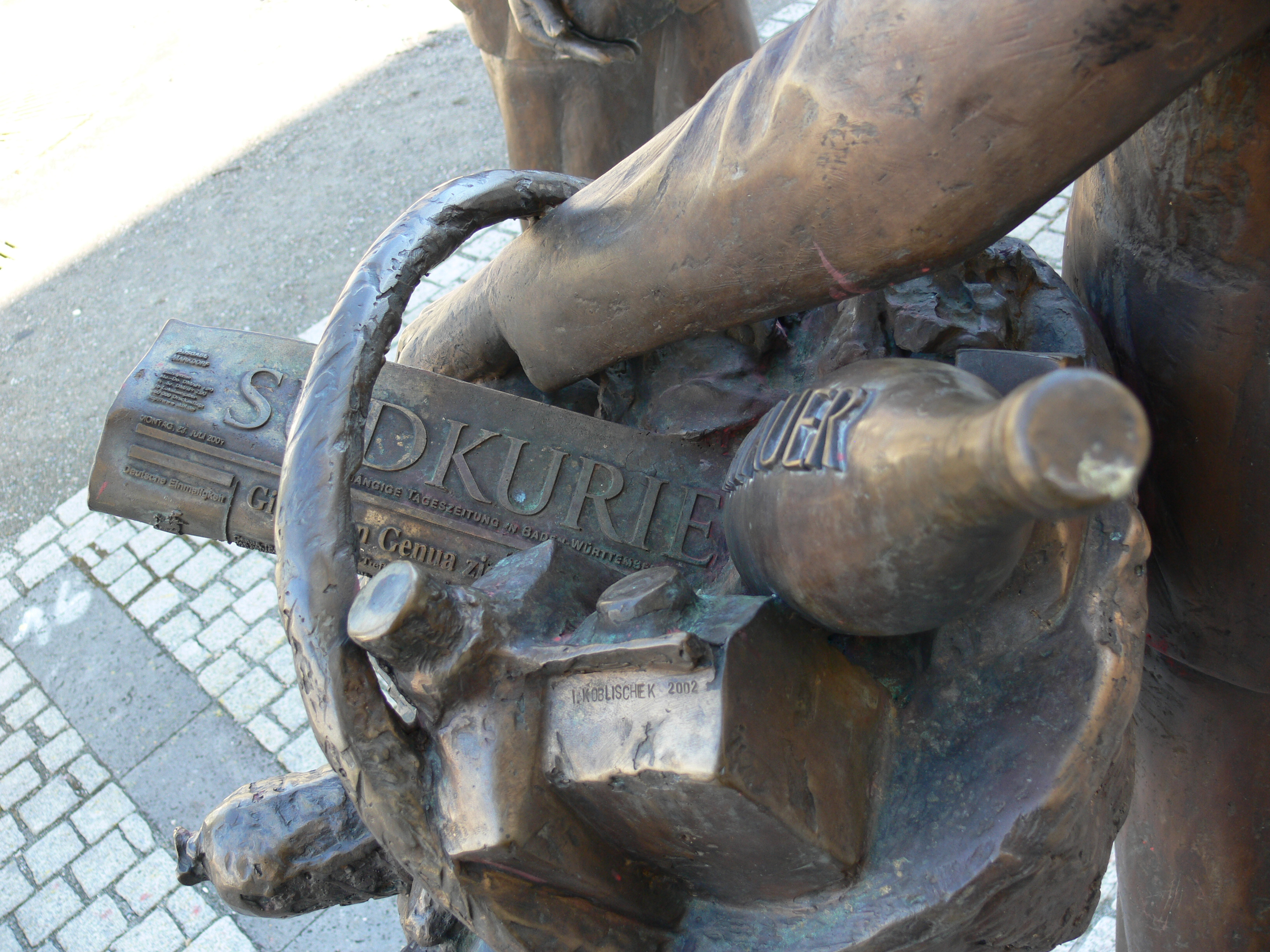 „Marktfrauengruppe“, sculpture group depicting a market seller, a shopper and a man with a newspaper, by Ingo Koblischek, 2003 (siged: 2002); located at Charlottenhof (off Charlottenstraße), Friedrichshafen, Germany. Detail: Einkaufskorb mit Hagnauer Wein und „Südkurier“, signiert Ingo Koblischek 2002